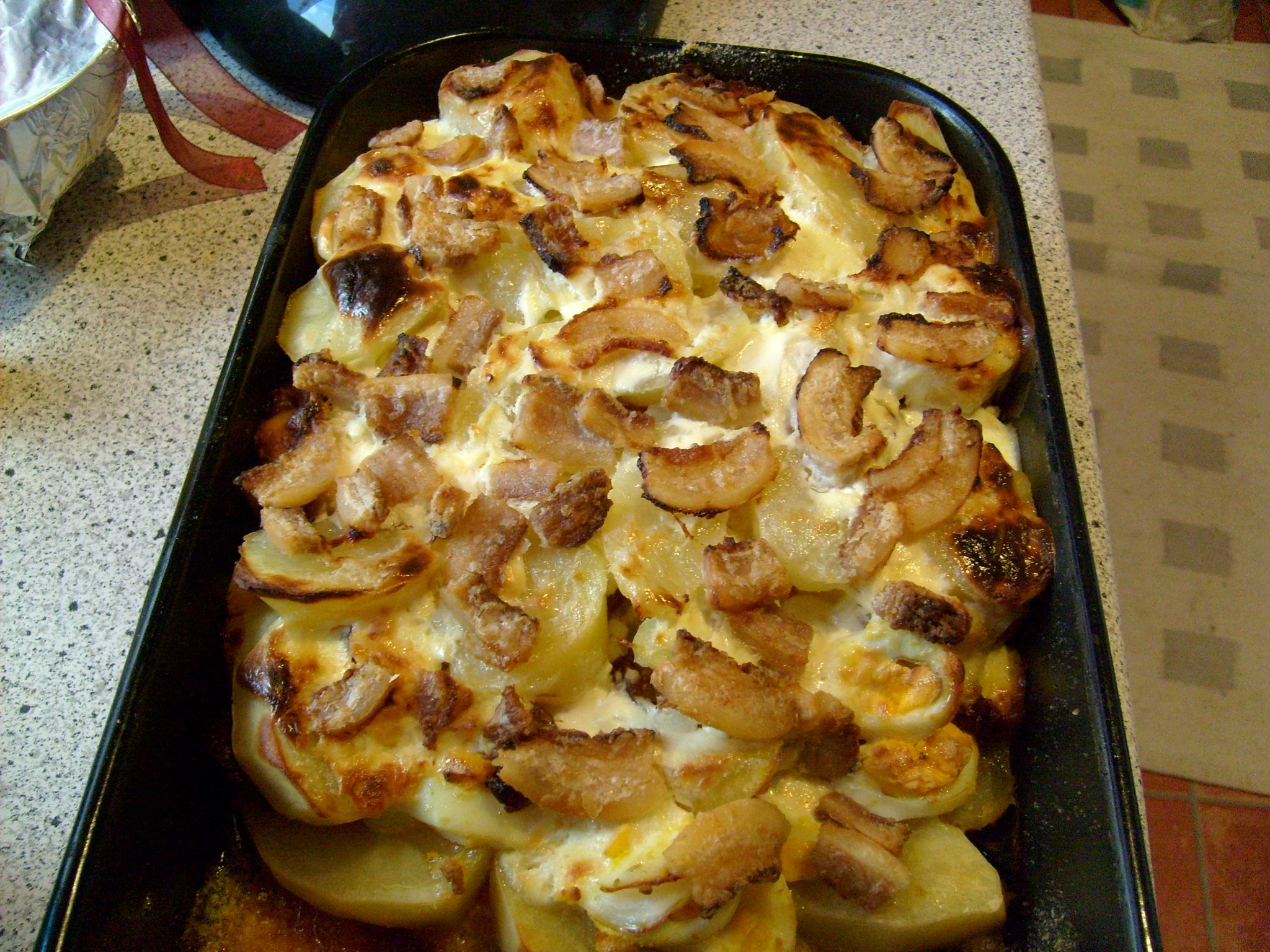 Rakott krumpli - a Hungarian dish made of layered potato with eggs, bacon and sausage